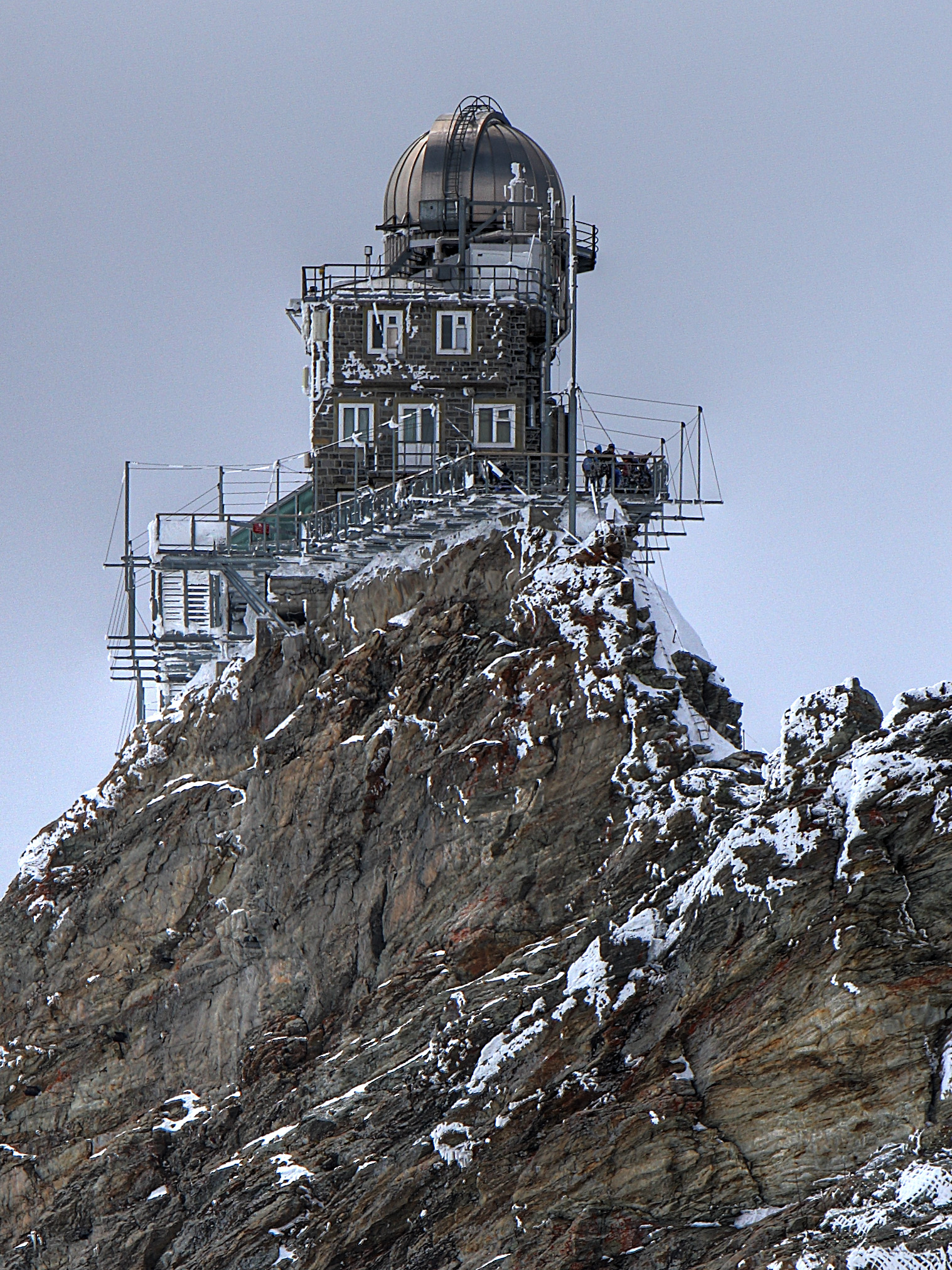 Amazingly, this mountain top has been hollowed to fit an elevator from the train station and ice Palace.